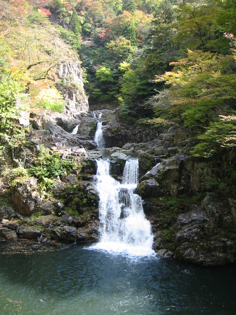 Sandan Falls in Sandankyo, Akiota, Hiroshima Prefecture.